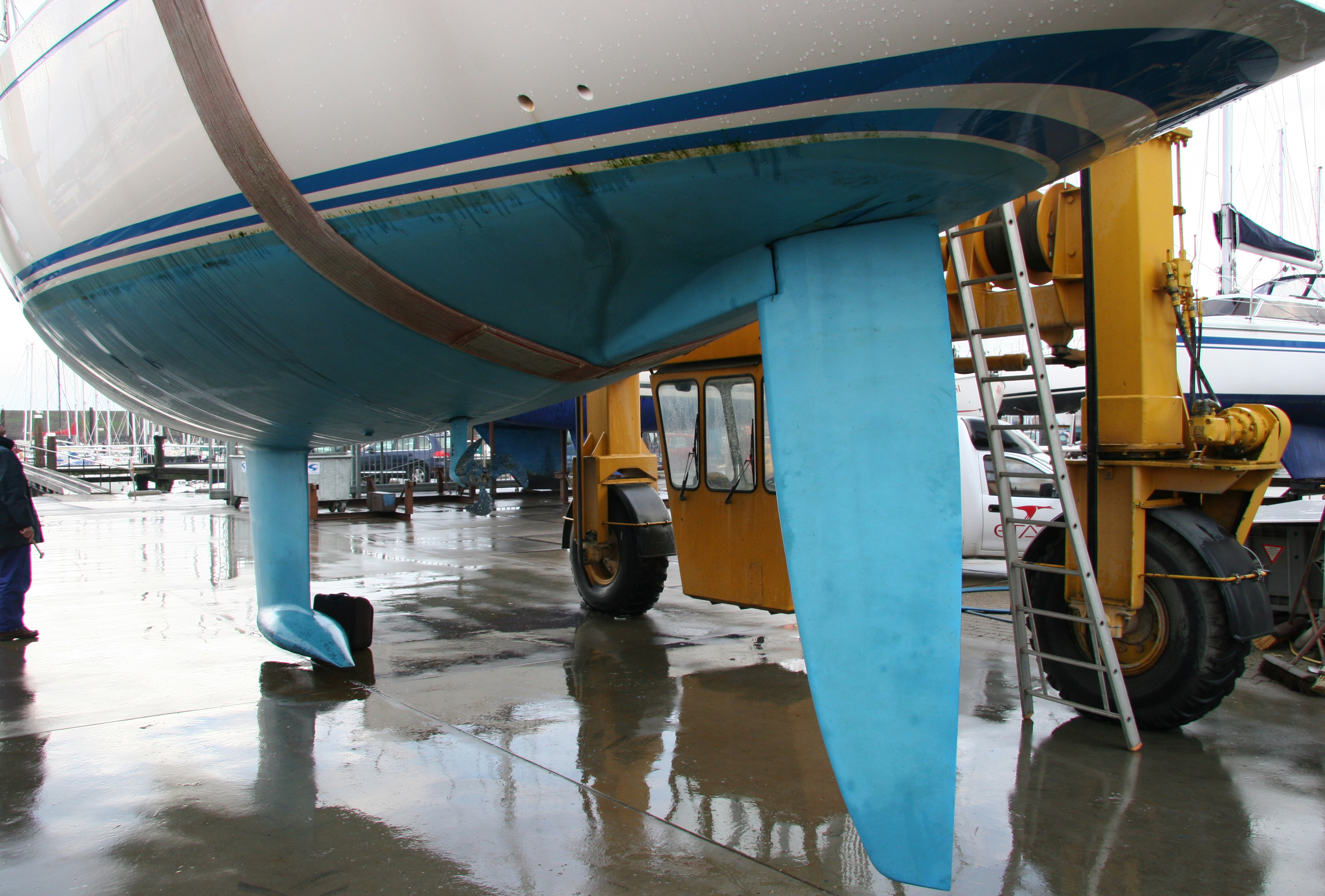 Swan 44 MKII Hull showing the bulb keel and the spade rudder